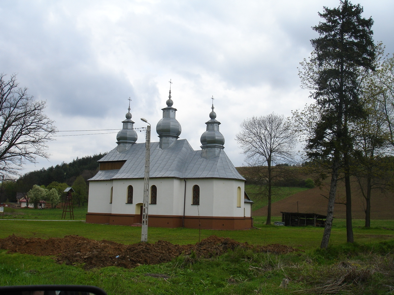 Malawa - greek catholic church (now latin church)